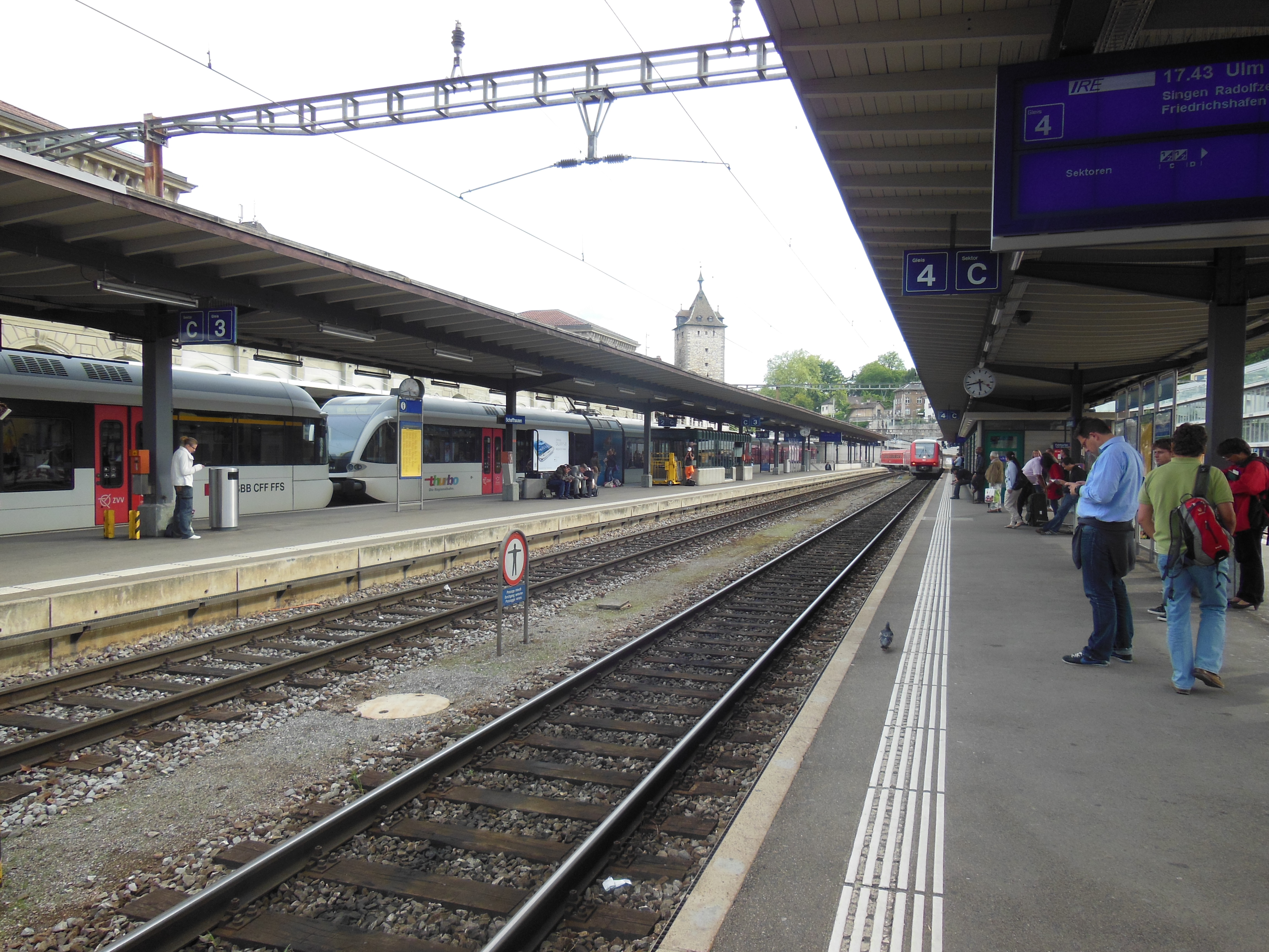 The platforms at Schaffhausen railway station. For more information, see the Wikipedia article Schaffhausen railway station.